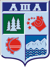 Asha (Chelyabinsk oblast), coat of arms (1997)